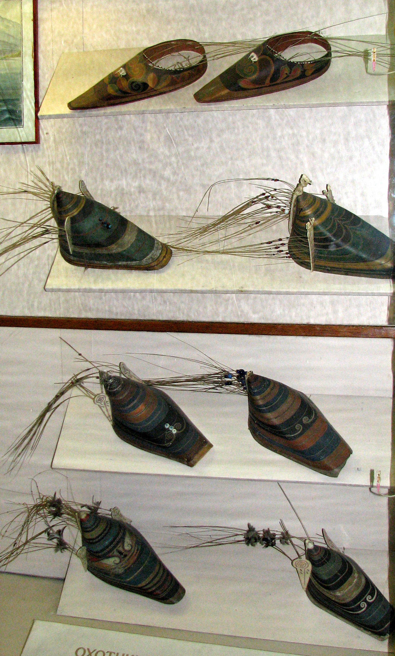 Saint Petersburg. Kunstkamera. Hall of North America. Culture of Aleuts. Wooden headdresses were a part of trade equipment of the hunter. Headdresses are decorated by bone plates and moustaches of an eared seal. Headdresses of the conic form belonged to leaders of tribes or notable members of a community; their price equaled to the kayak price. A XIX-th century.